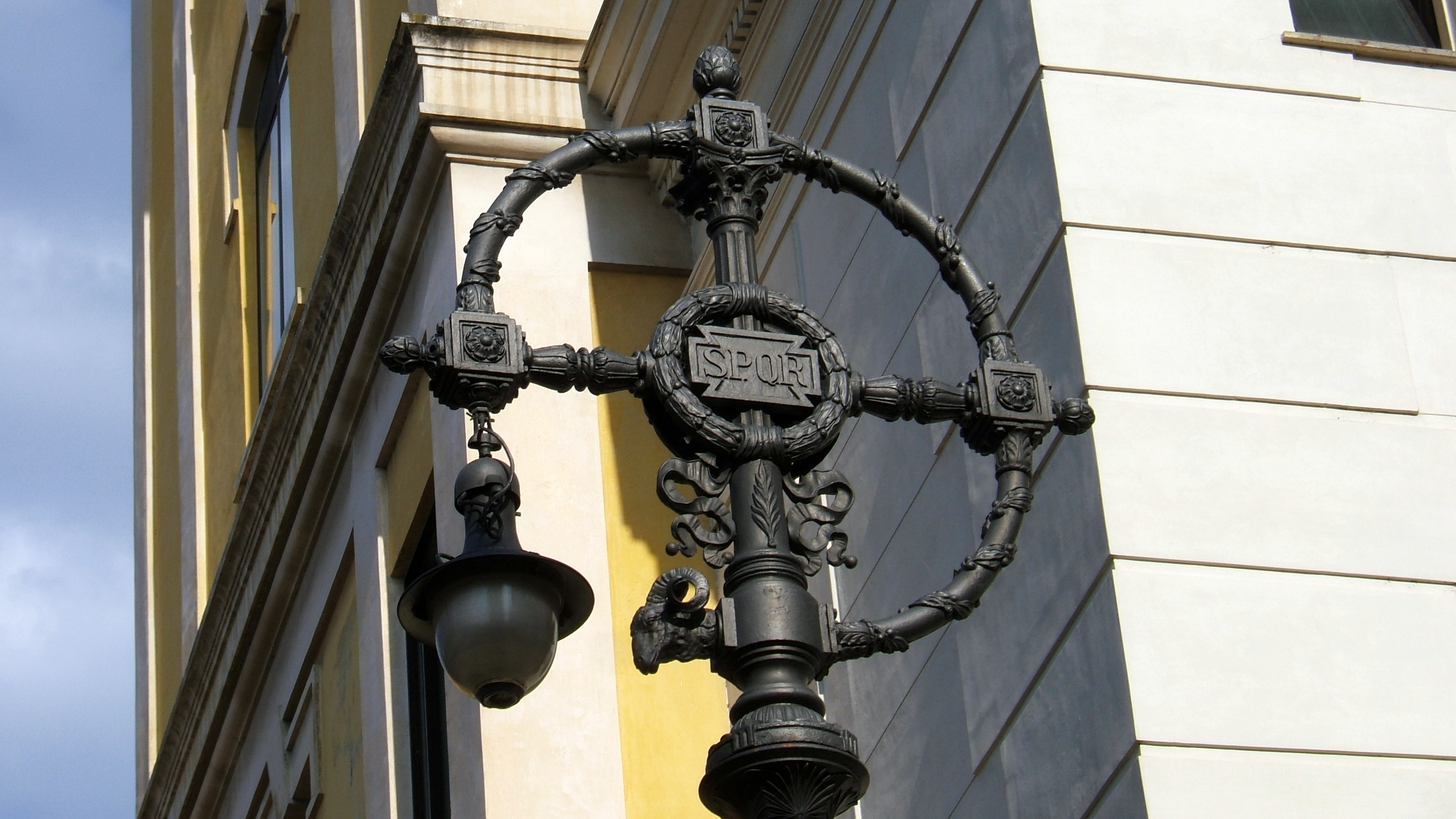 2007-06-12 in Rome.